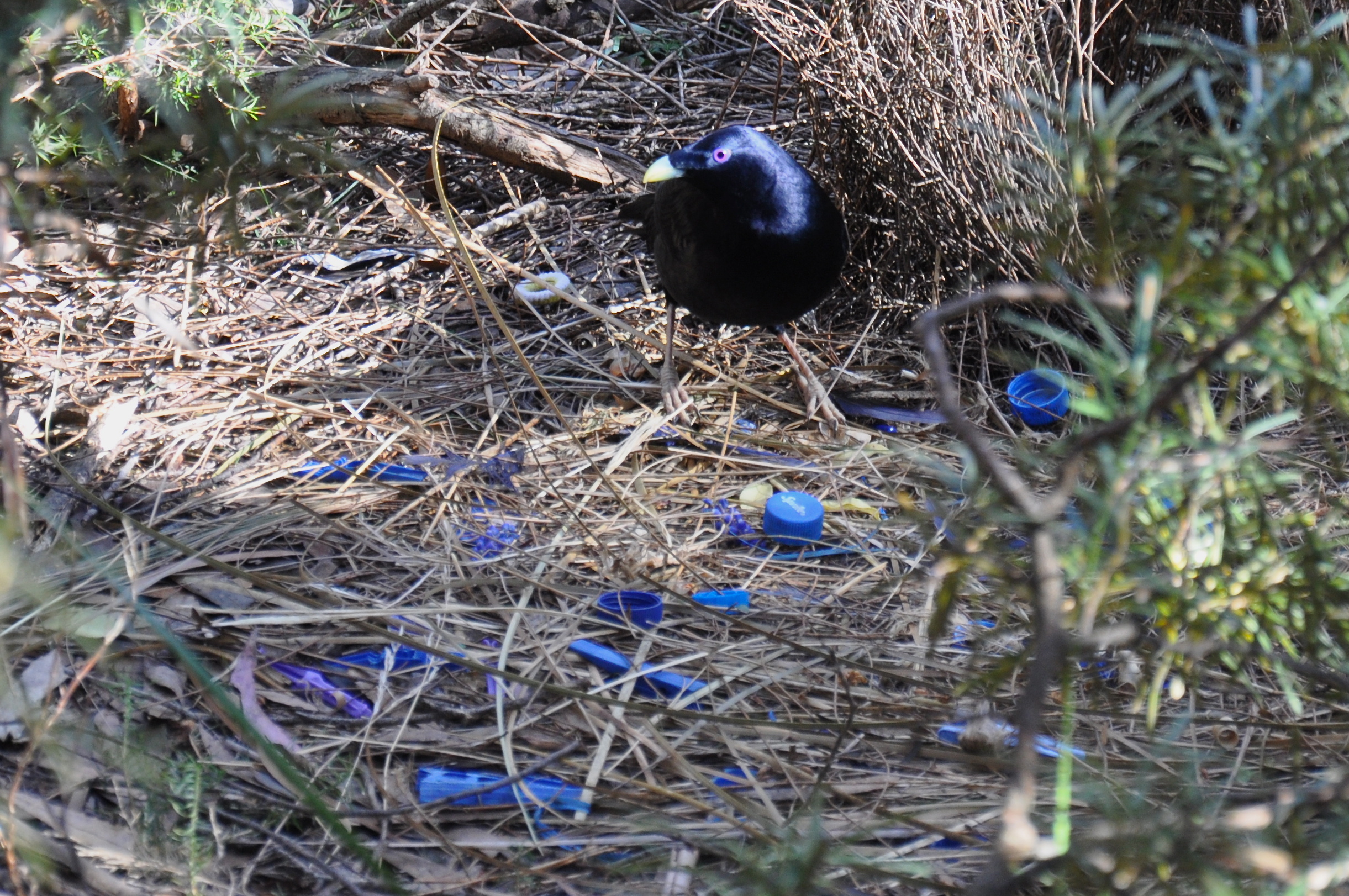 A satin bowerbird male builds its bower with blue things collected